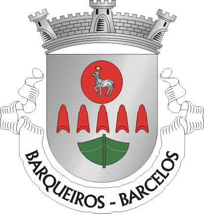 Crest of Barqueiros, a parish in the municipality of Barcelos (Portugal)